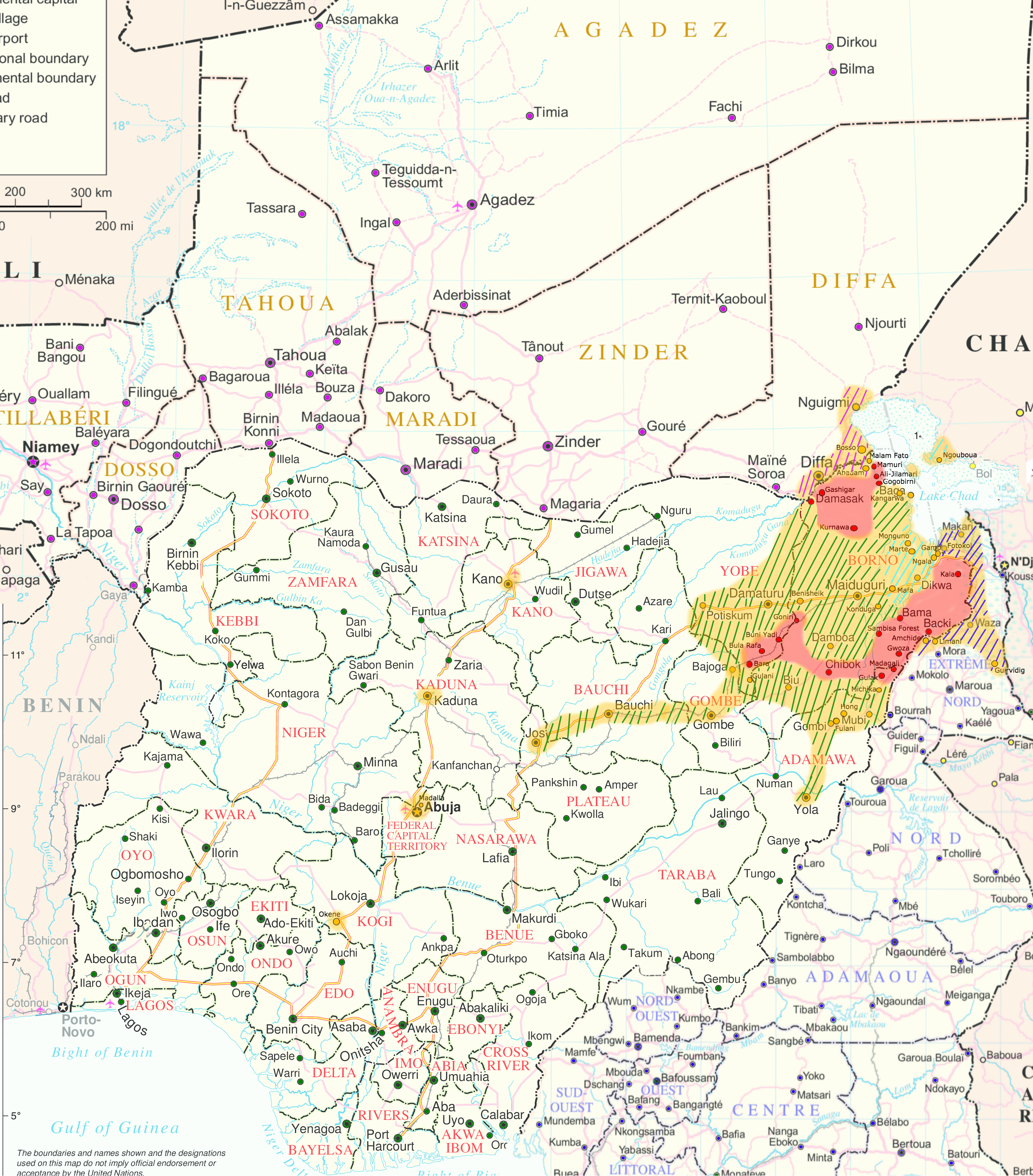 Map of Boko Hama control and attacks in the Lake Chad Region. Boko Haram controlled areas are in red. Areas that have been attacked by Boko Haram in orange.